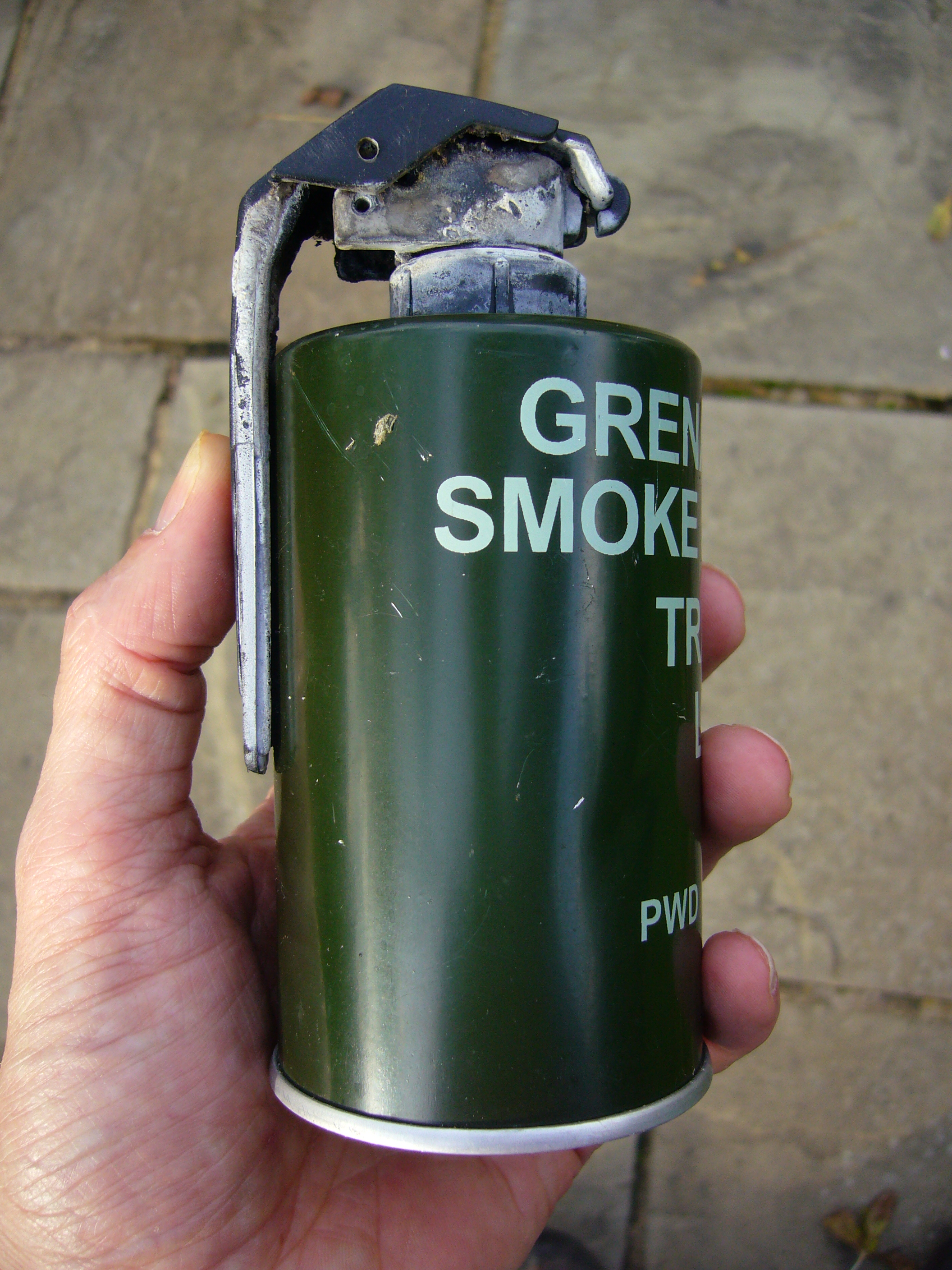 British L83A1 Smoke Grenade manufactured in May 2008. This grenade has already been used.